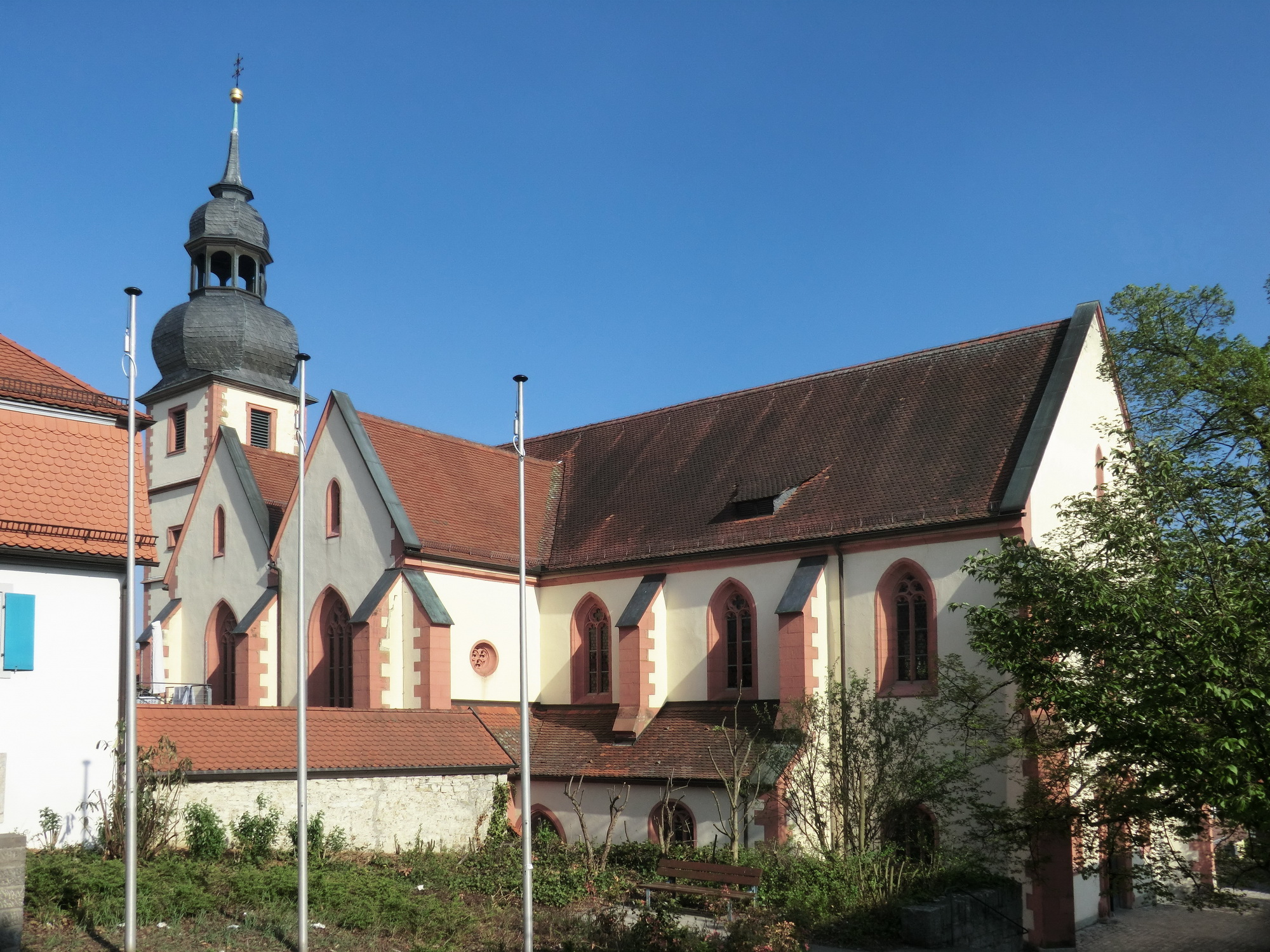 Church of Mariä Geburt Native namePfarrkirche Mariä GeburtLocationHöchberg, Lower Franconia, GermanyCoordinates49° 46′ 51.56″ N, 9° 52′ 33.64″ E